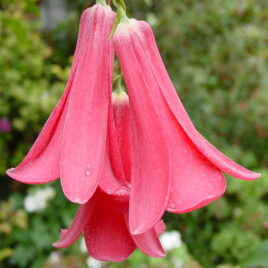 Lapageria rosea flowers